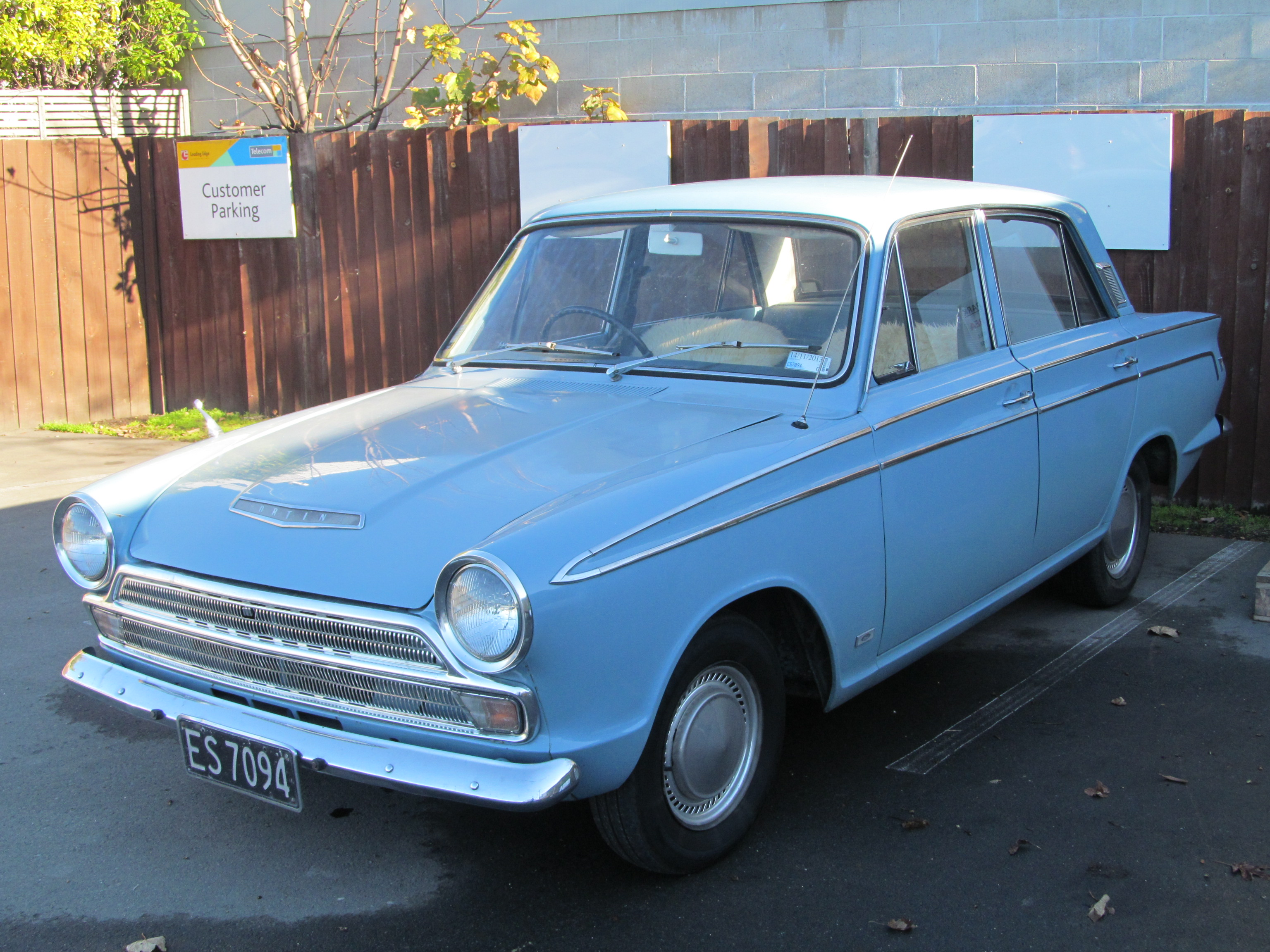 ES7094 This was another surprise car park find - Mk1 Cortinas are rarely seen in the wild here now, and this was more or less the same as the day it left the factory!